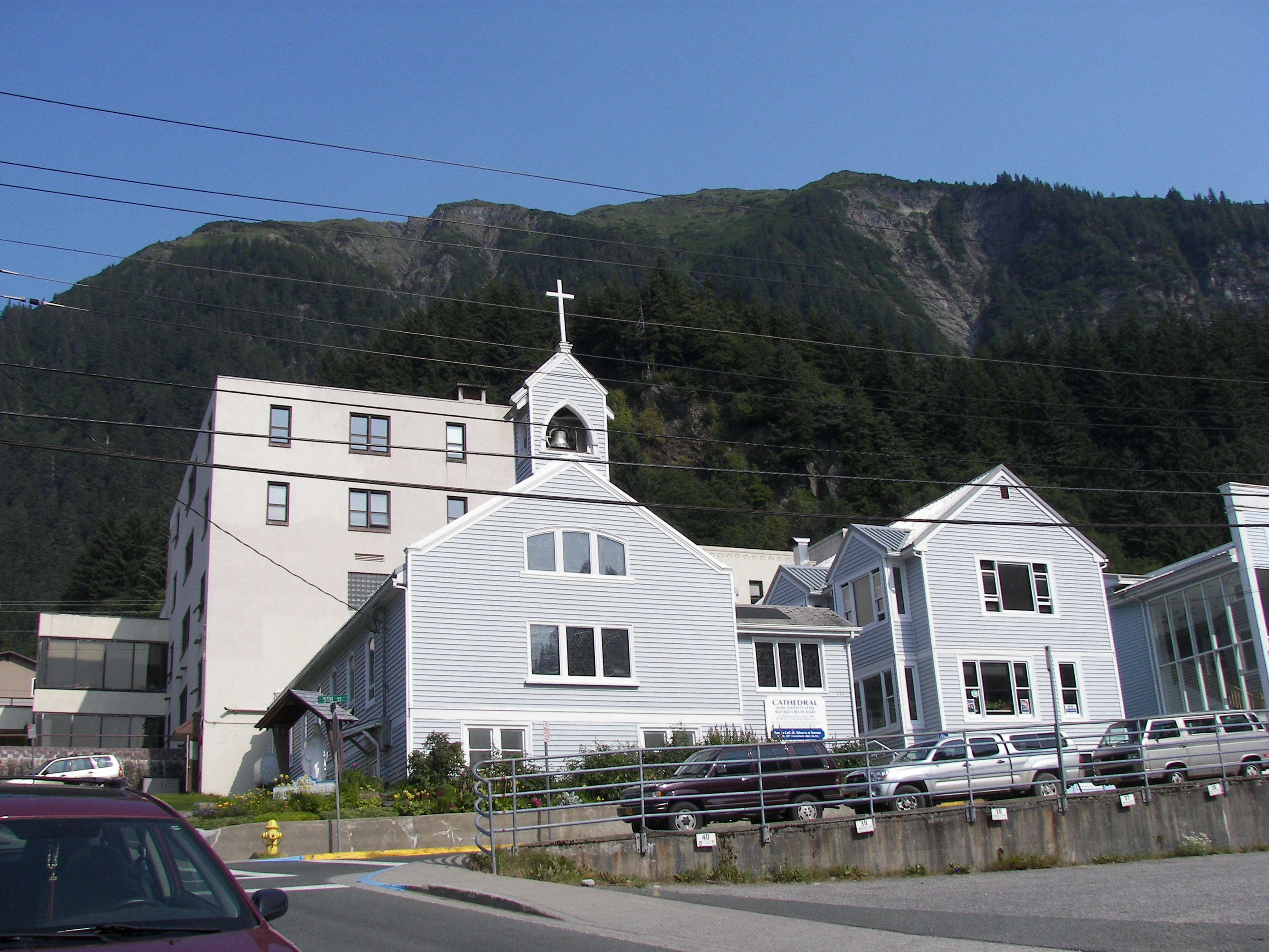 Cathedral of the Nativity of the Blessed Virgin Mary on Fifth Street in downtown Juneau, Alaska. Roman Catholic Diocese of Juneau.